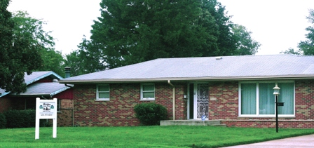 This is an image of Home Away From Home Adult Care and Respite Center in Washington Park, Illinois, USA.